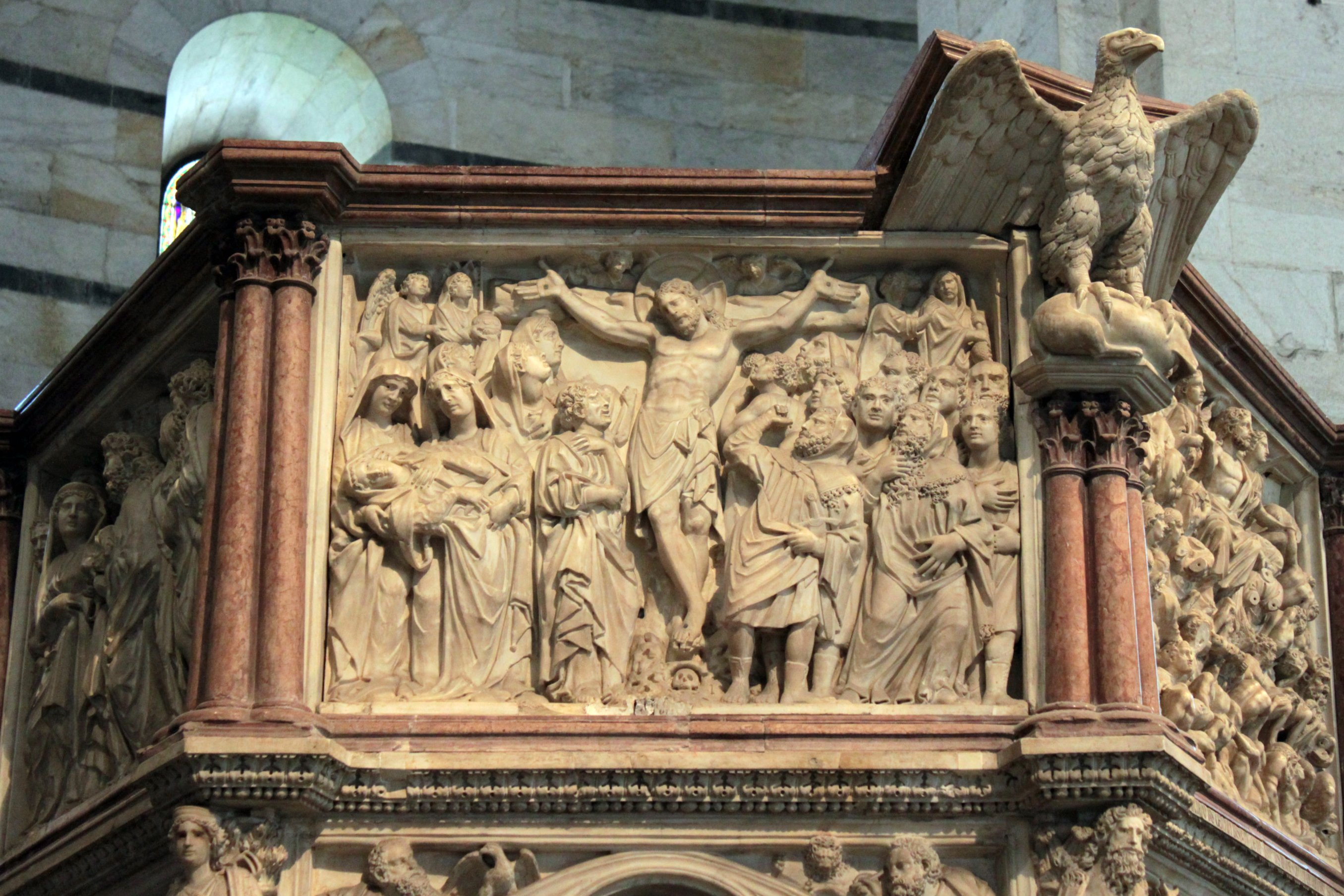 The crucifixion depicted on Nicola Pisano's pulpit in the Baptistry of S. John Baptist, Pisa